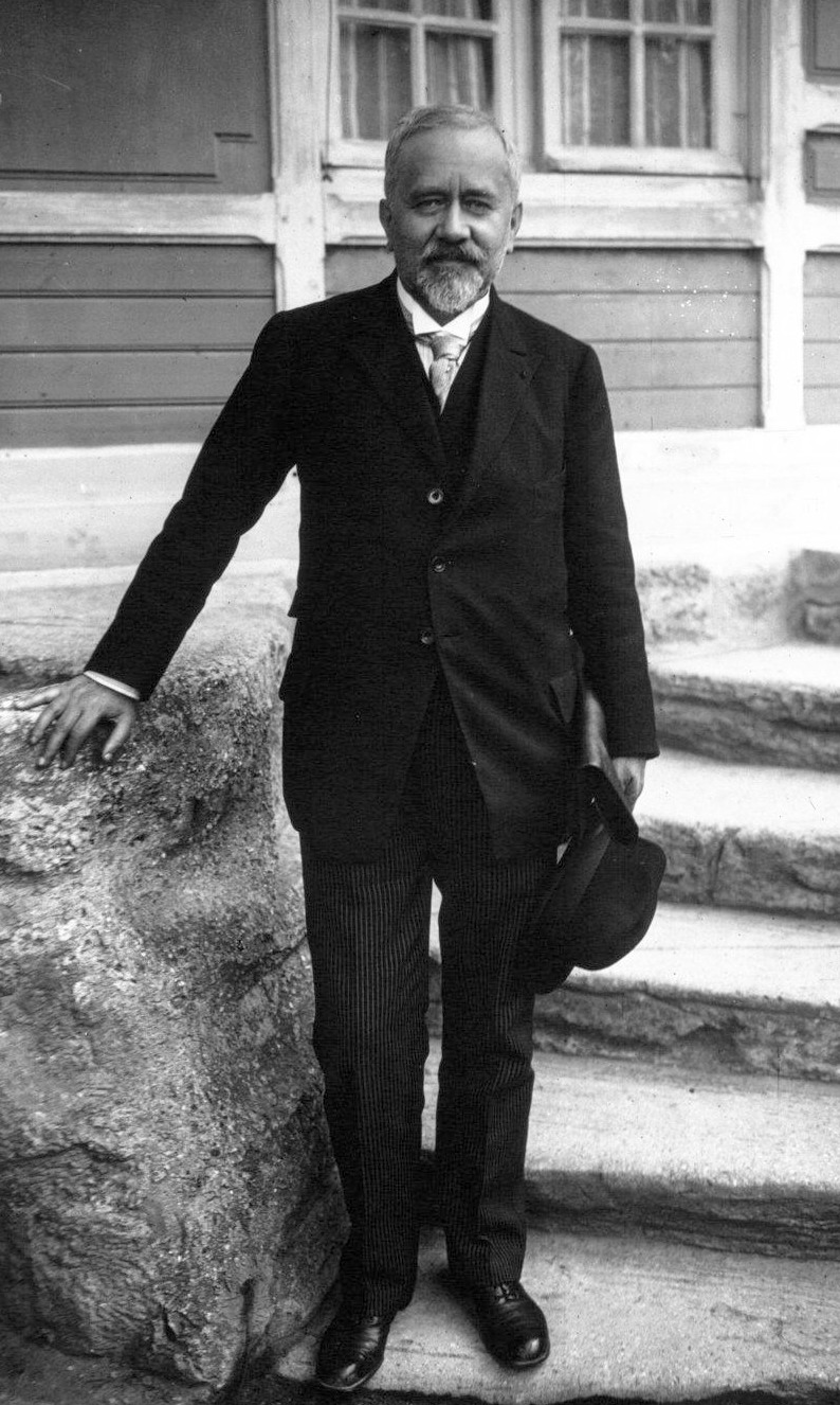 French physician and bacteriologist Albert Calmette (1861-1933).